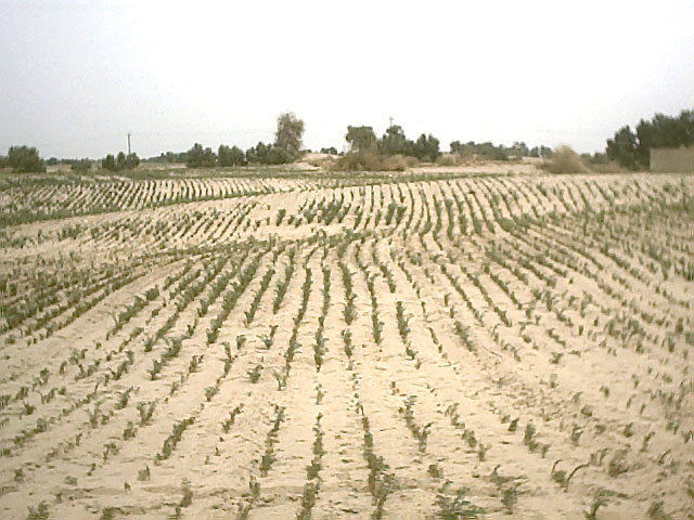 Crops planted in desert.